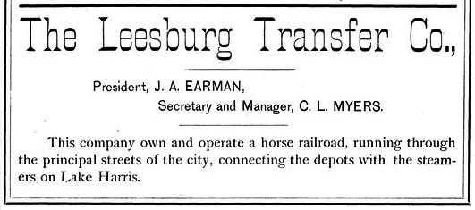 An ad from "Webb's Jacksonville and consolidated directory of the representative cities of east and south Florida" 1886 edition